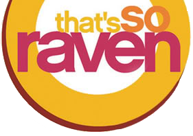 The title logo for the series That's So Raven